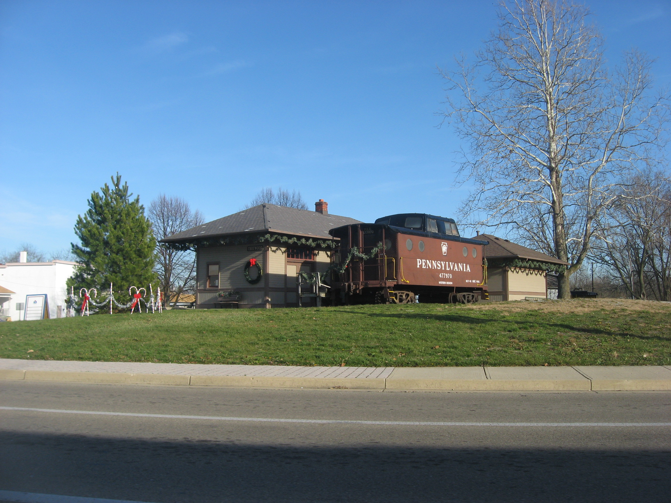 View from the west of the Trotwood Railroad Station, located at 2 E. Main Street in Trotwood, Ohio, United States. Built in 1913, it is listed on the National Register of Historic Places.